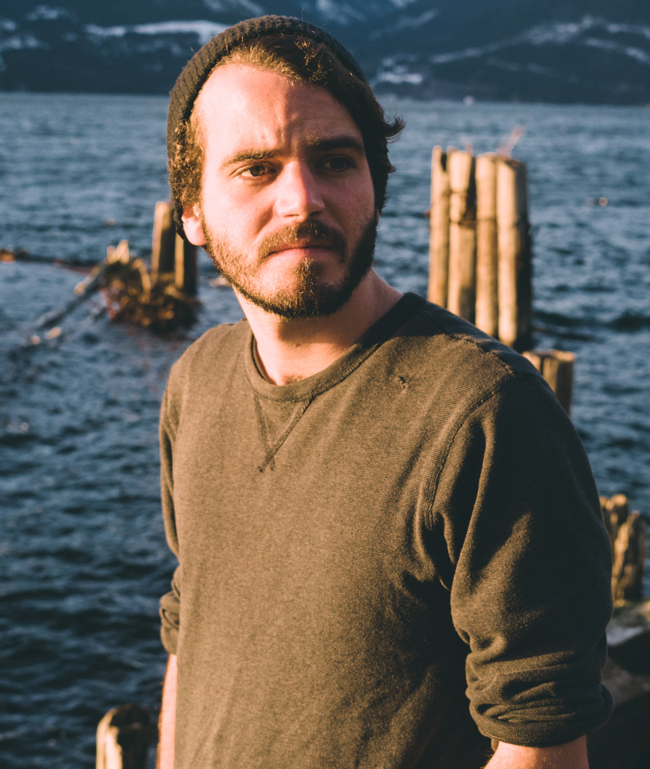 A picture of Pierce Fulton taken in Squamish, BC